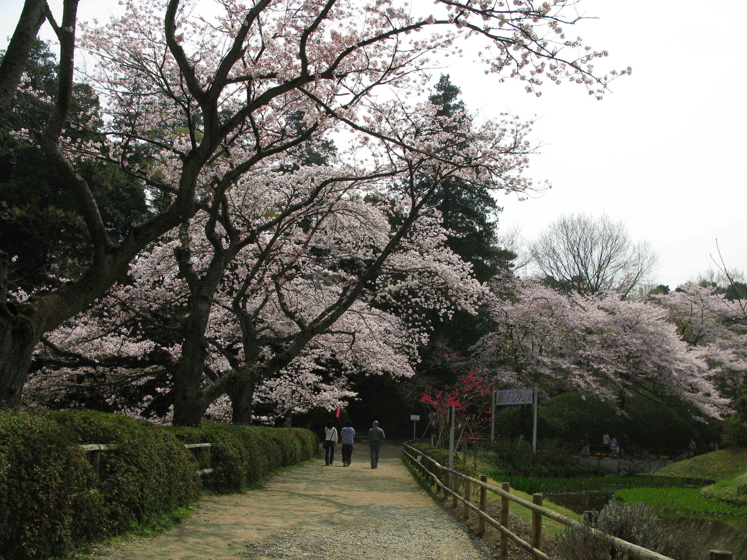 Shimizu Park, Noda city, Chiba, Japan